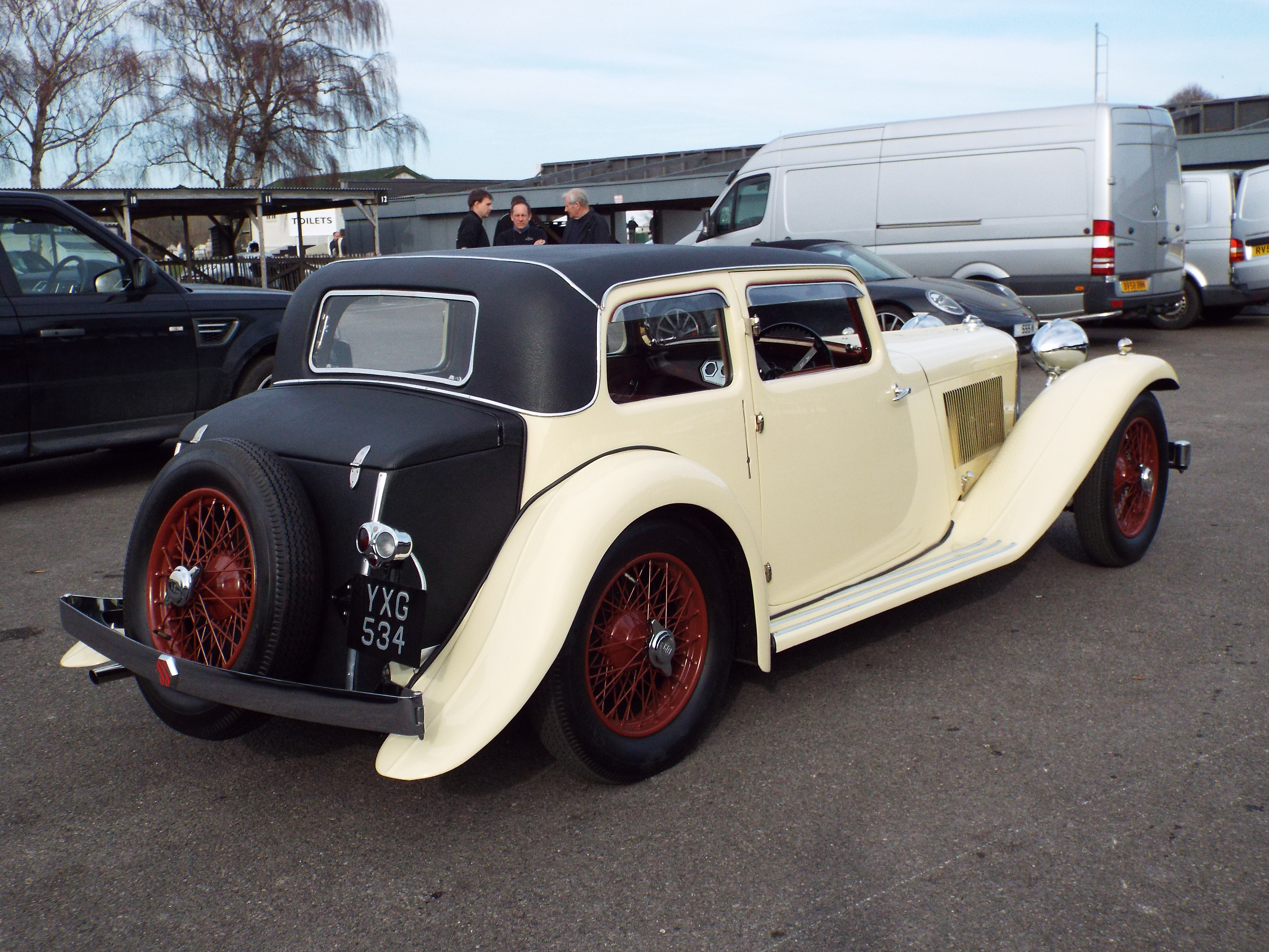 1934 S.S.1 Sixteen fixed head coupé (DVLA) manufactured 1934, 2054 cc Goodwood track day 10 March 2015 73rd. Members Meeting Testing